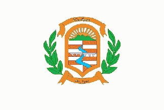 Flag of Santa Rosa Department